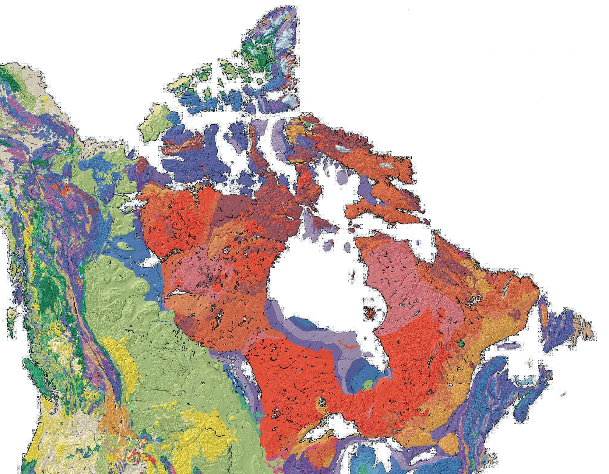 Geological Map of Canada